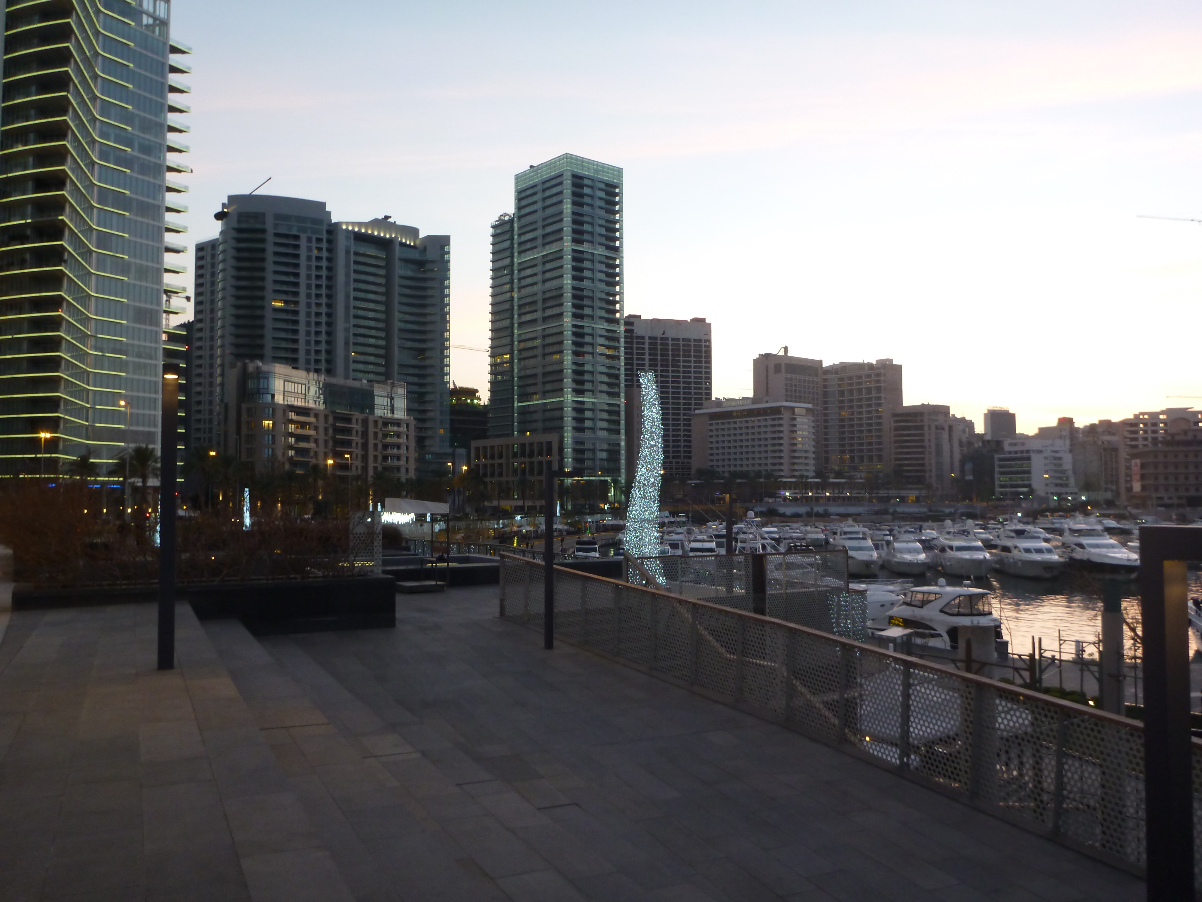 Saint George Bay, Marina (Zaitunay Bay) and skyline of Beirut: Marina Towers, Platinum Tower, Phoenicia InterContinental Hotel and more